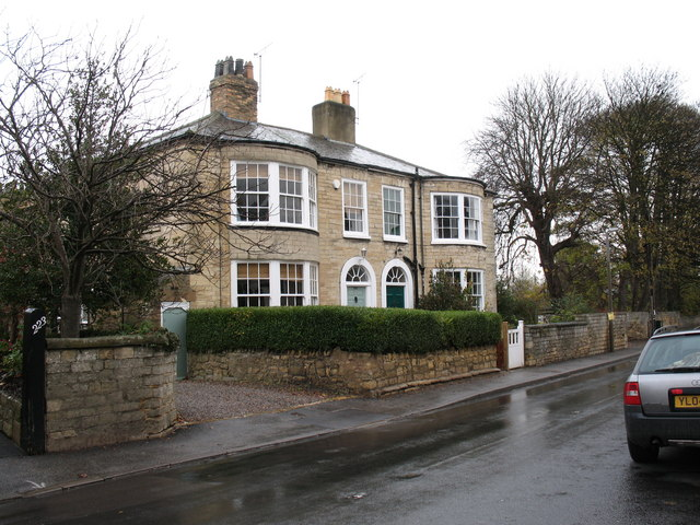 Early 'semis' in Boston Spa It is unusual to see semi detached houses of this period. They look to be early 19th century and are made of the local limestone.